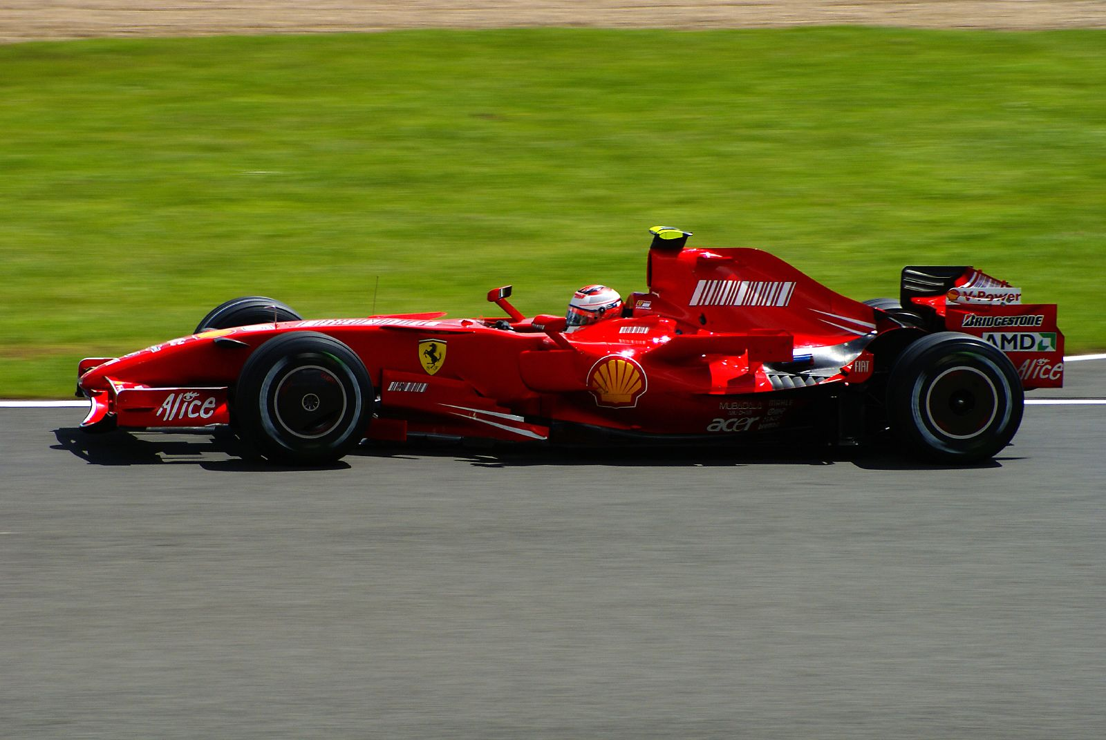 Kimi Räikkönen driving for Ferrari at the 2007 British Grand Prix.